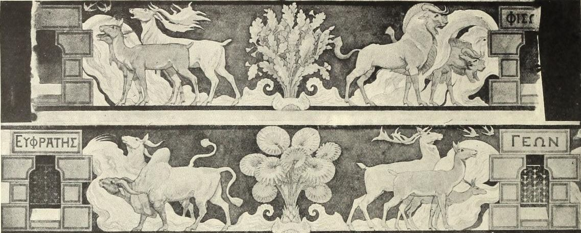 Black and white reproduction of a design by Charles Lameire of the headpiece part of a frieze encircling the lower part of the dome, and representing the "Four Rivers of the Terrestrial Paradise."